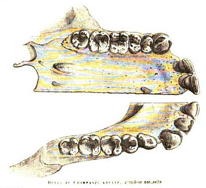 Chimp jaws